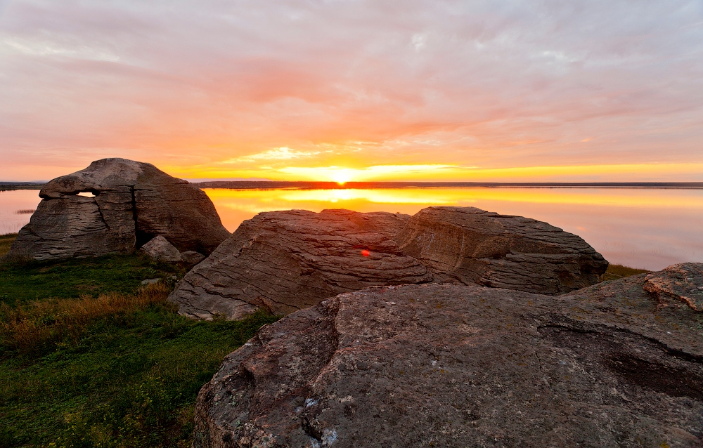 Stones on lake Big Allaki